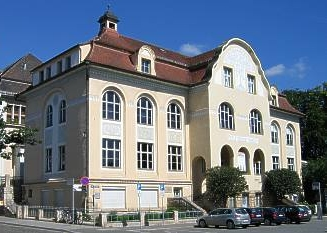 Phyletic Museum, Jena, Germany